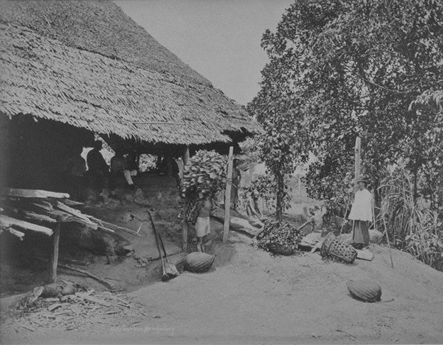 Chinese men at the Kangkar of a gambier and pepper plantation in Singapore